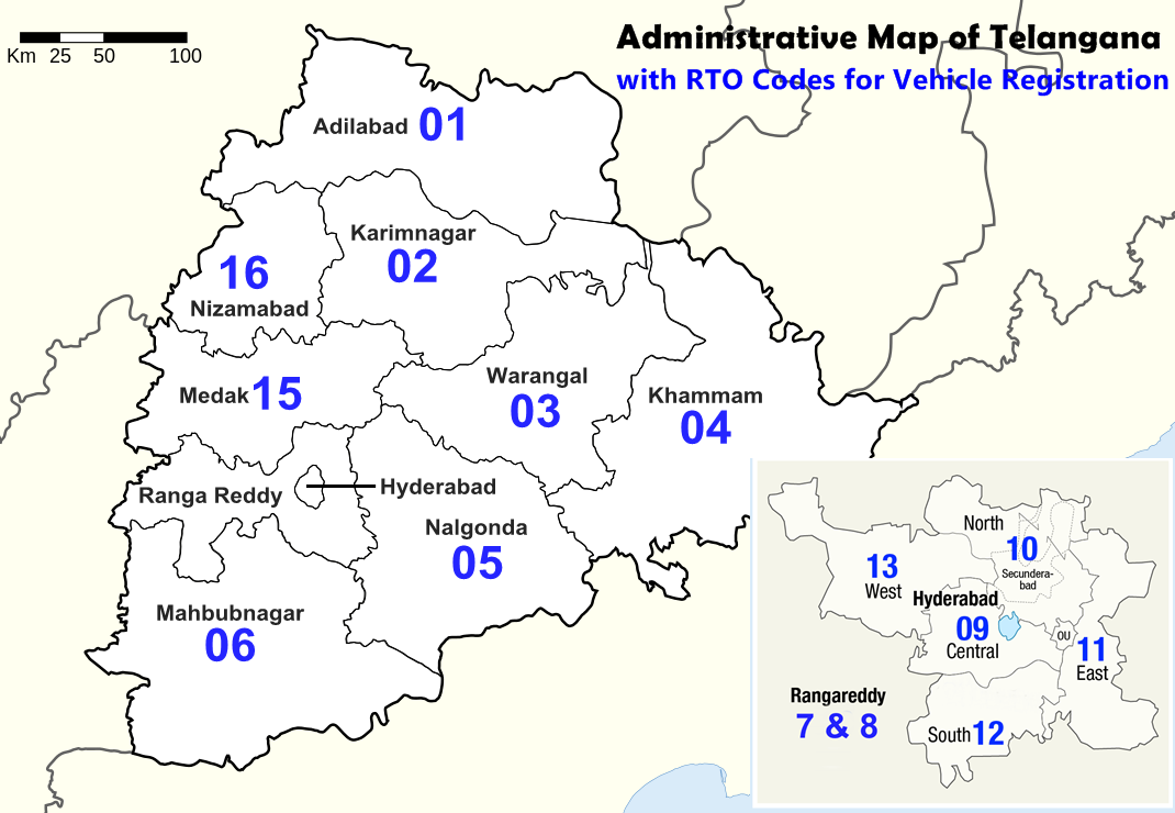 RTO Vehicle Registration codes for Districts of Telangana State